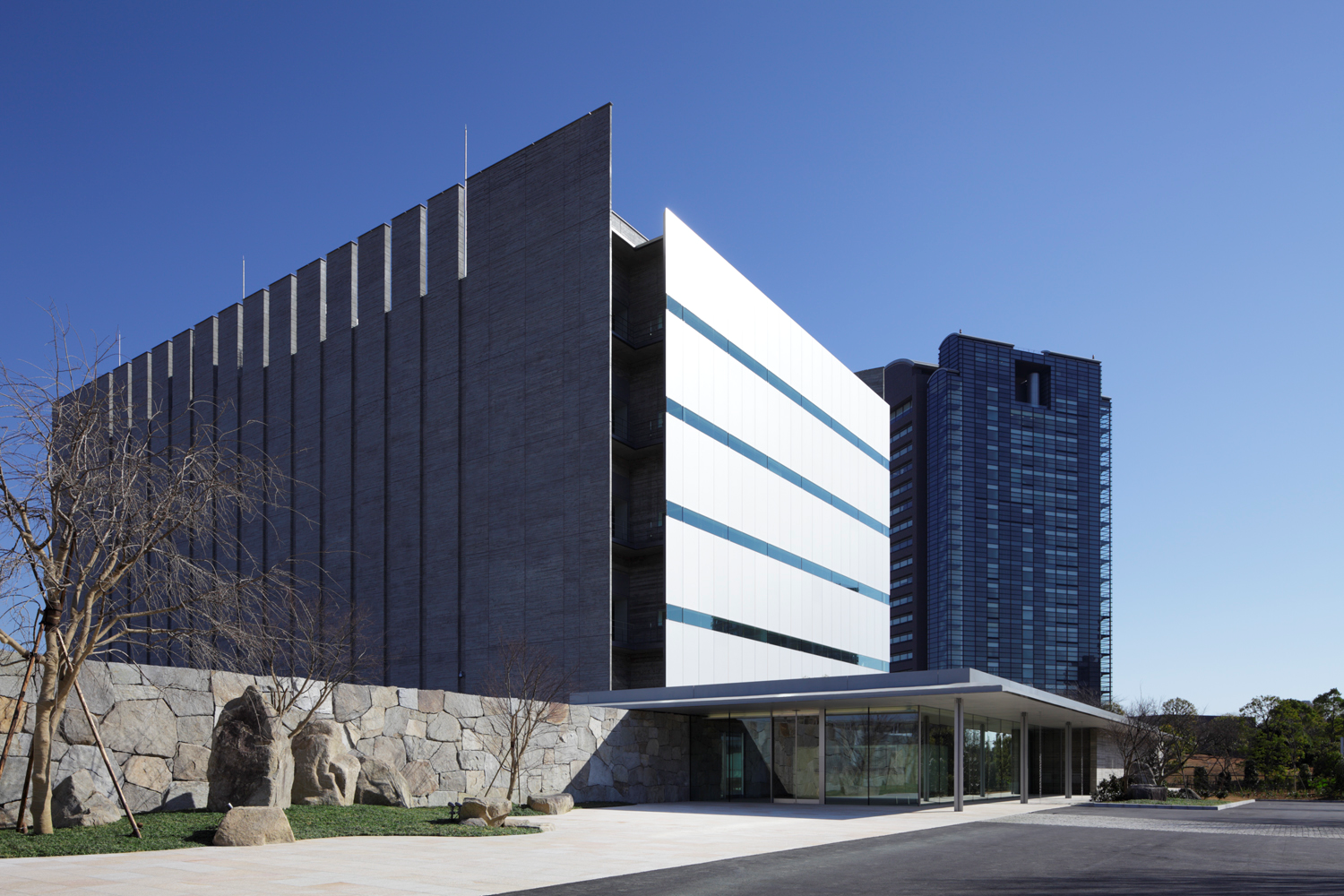 Photo of KVH Tokyo Data Center 2 taken by KVH employees